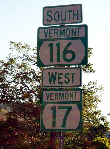 VT 116 southbound/VT 17 westbound